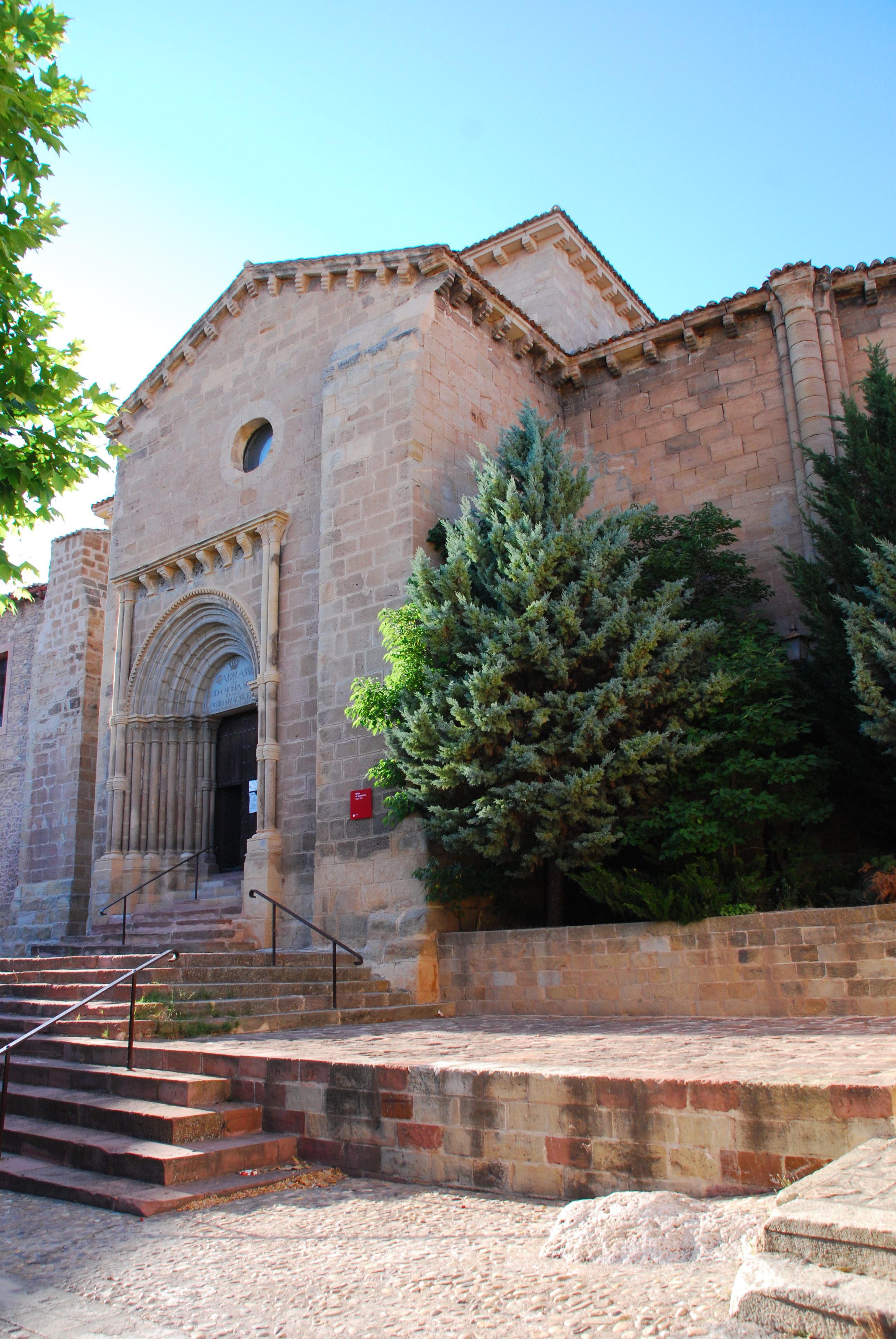 Church of Saint Clare Convent, in Molina de Aragón, Guadalajara, Spain.